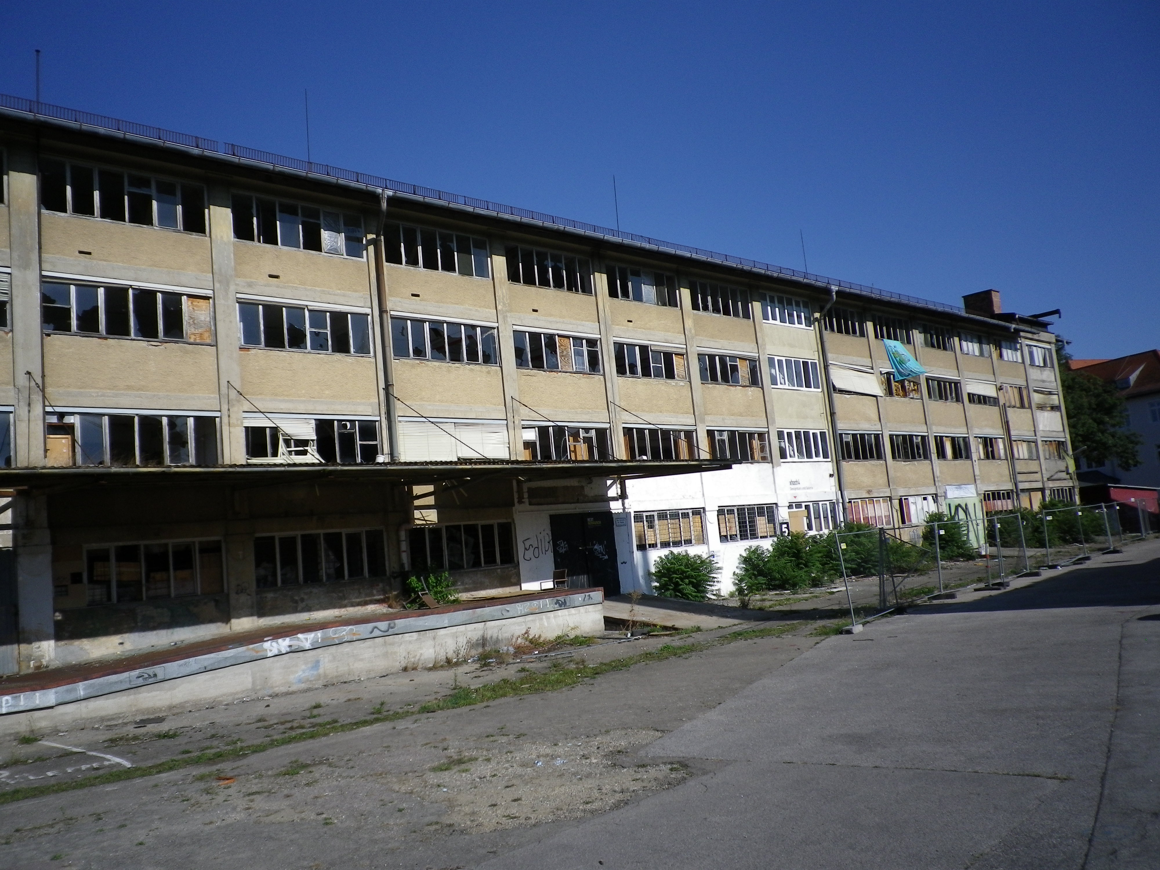 This is a photograph of an architectural monument.